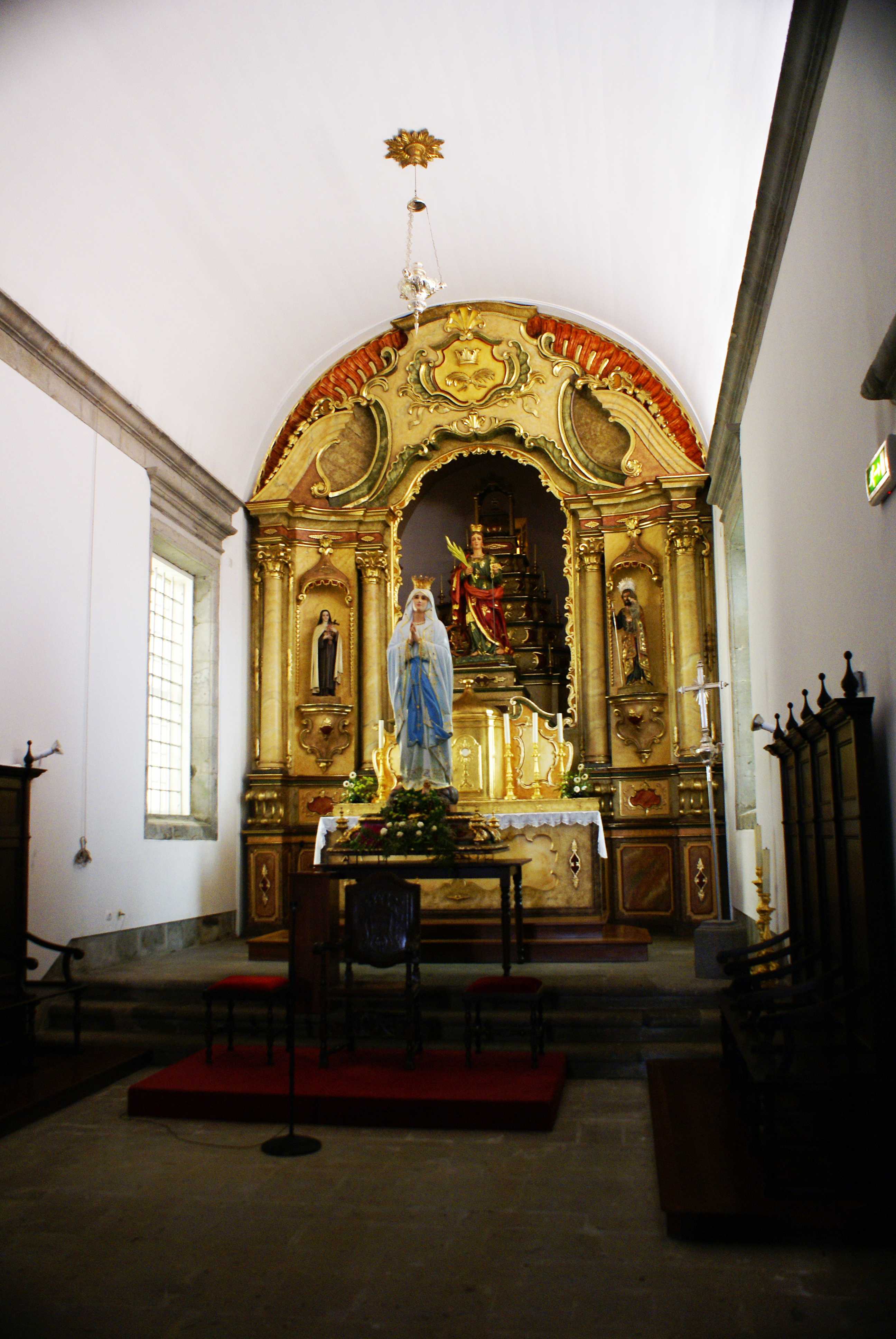 Igreja de Santa Catarina, Altar mor, Castelo Branco, concelho da Horta, ilha do Faial, Açores, Portugal